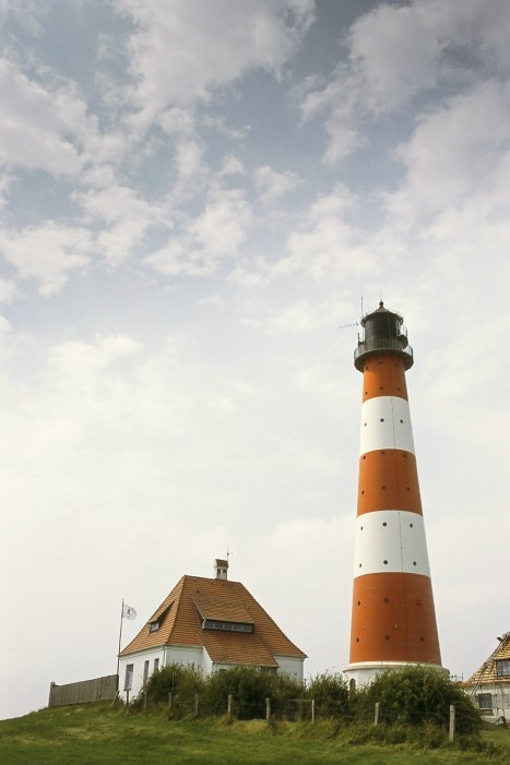 Westerhever Lighthouse, Eiderstedt, North Friesland, Germany